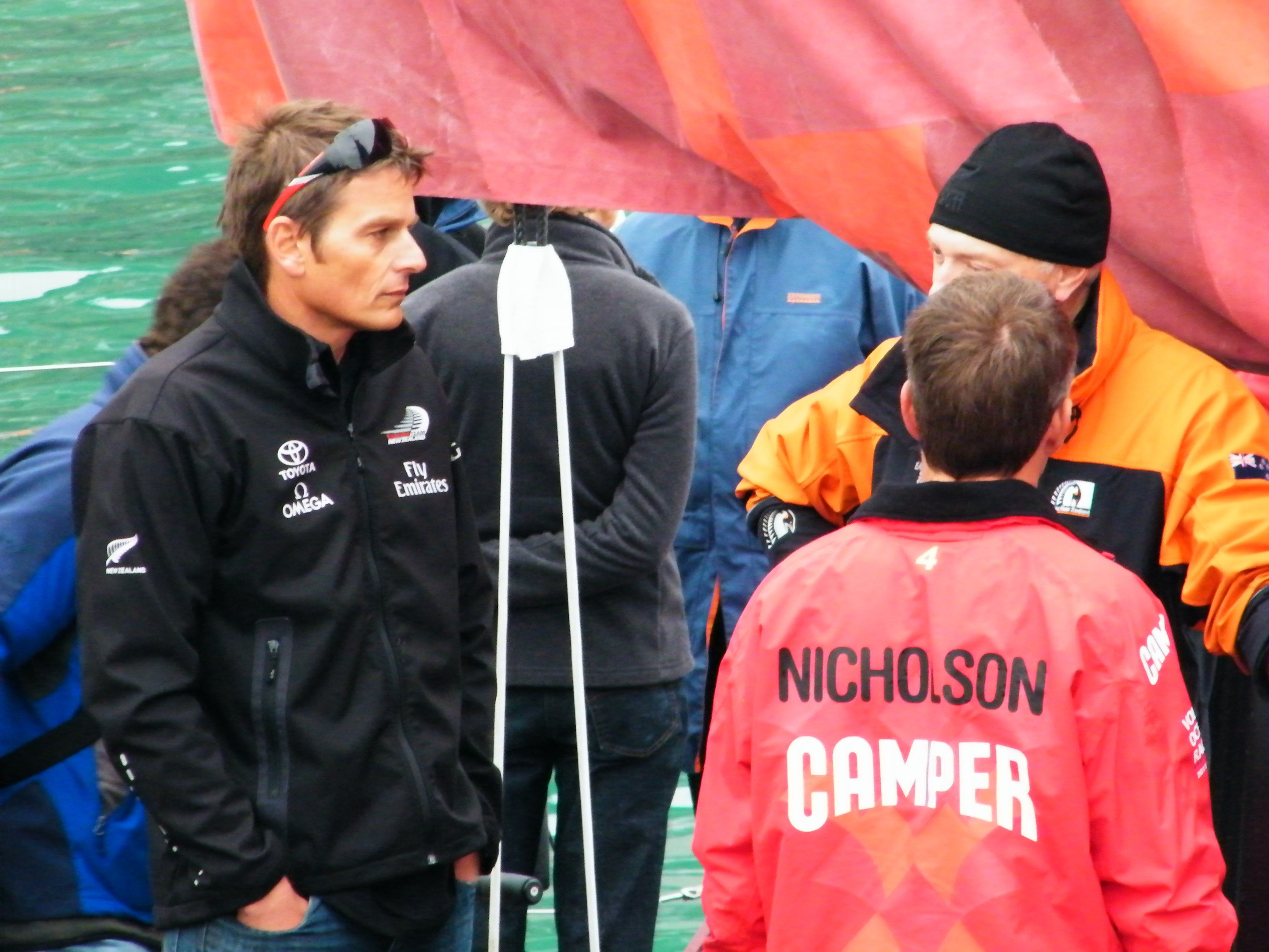 Dean Barker from Emirates Team NZ was there too.